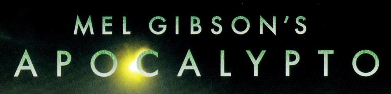 Official logo of the movie Apocalypto